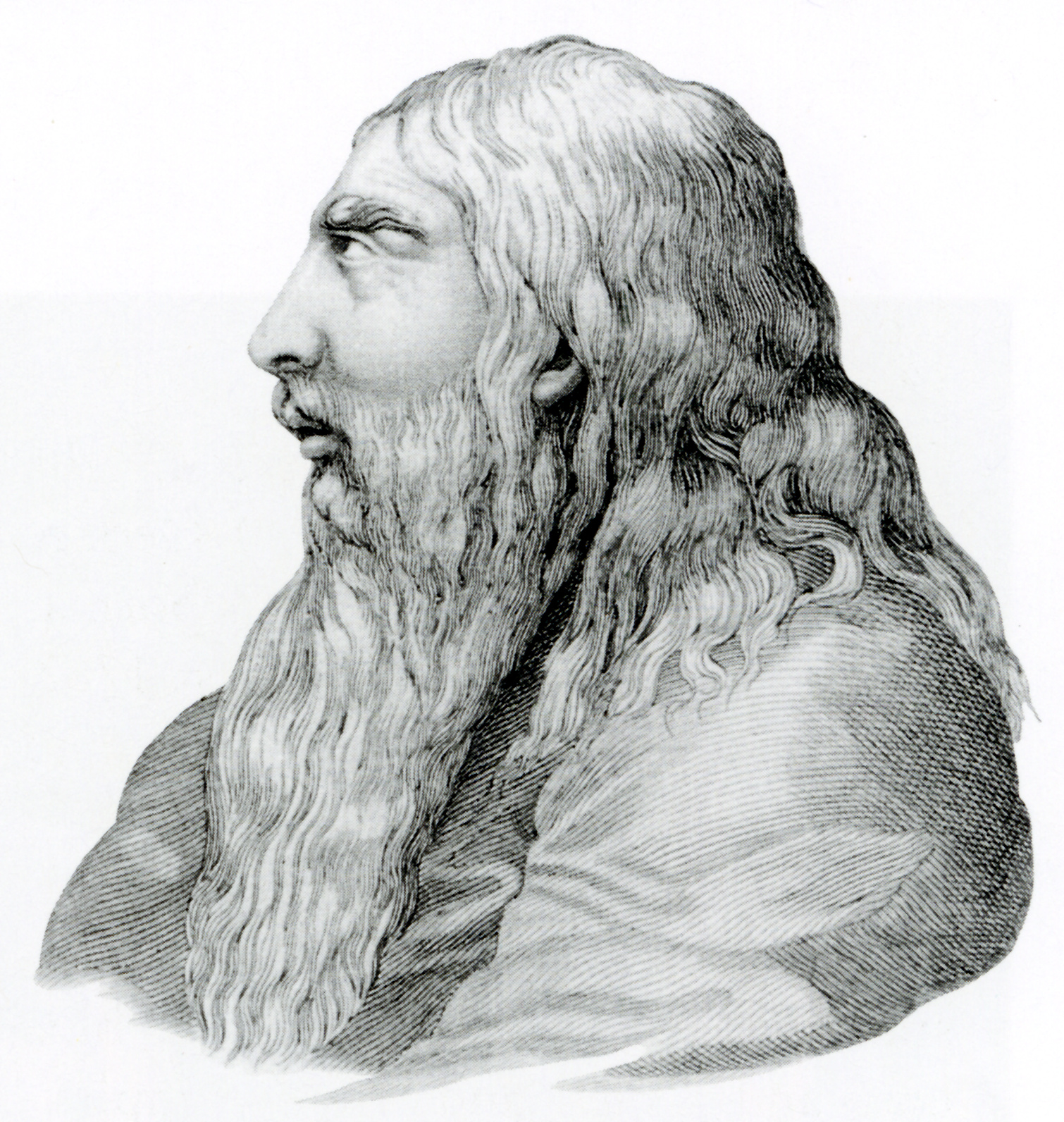 George III of the United Kingdom (1738–1820)